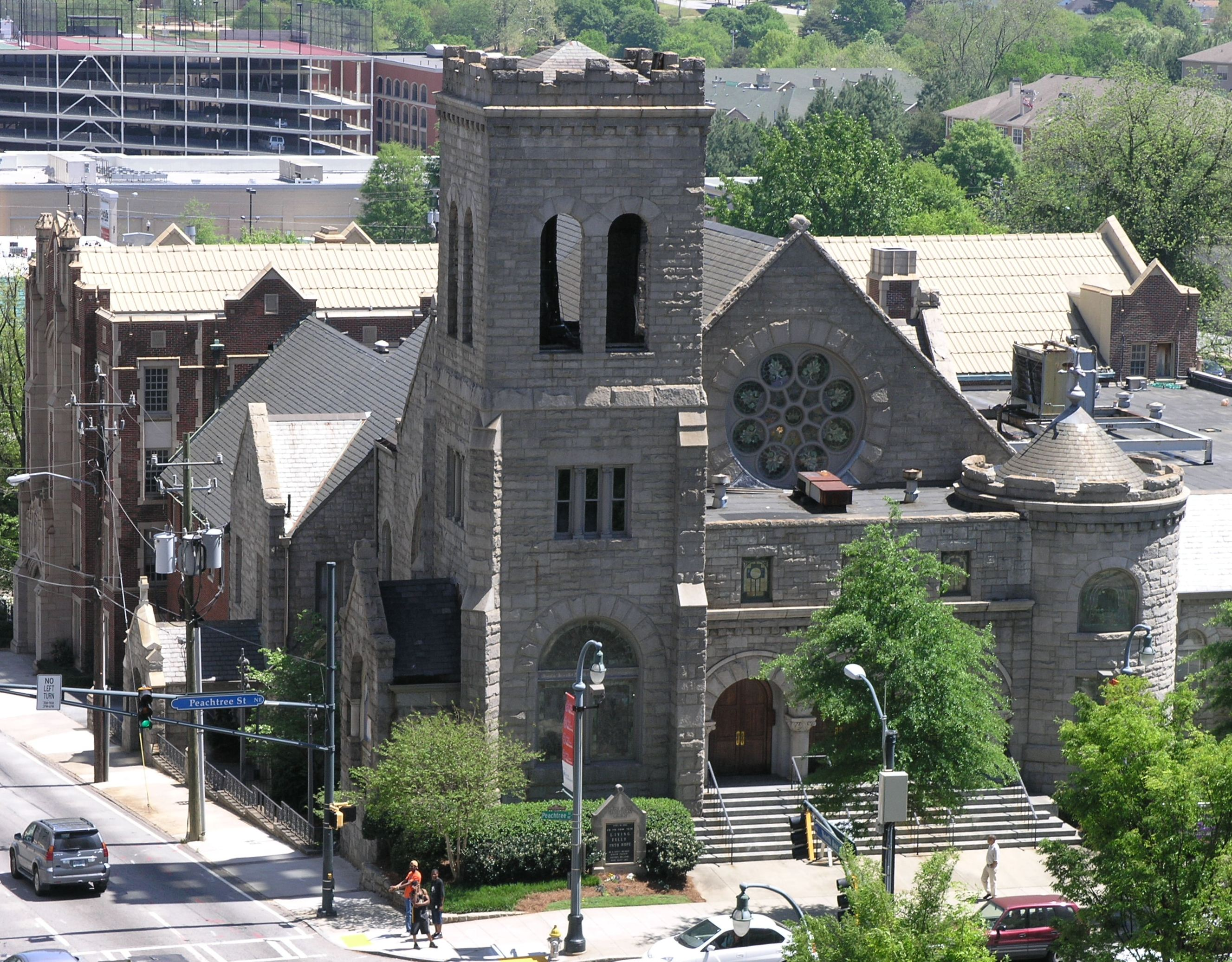 Photo taken in Atlanta area. North Avenue Presbyterian Church, located on the southeast corner of North Avenue and Peachtree Street at 607 Peachtree St., NE, Atlanta, GA 30308-2226[1]